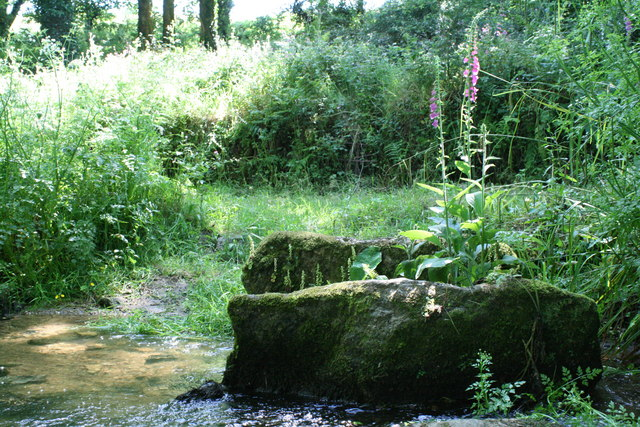 Stream south of Sellan This stream flows into the Drift Reservoir.